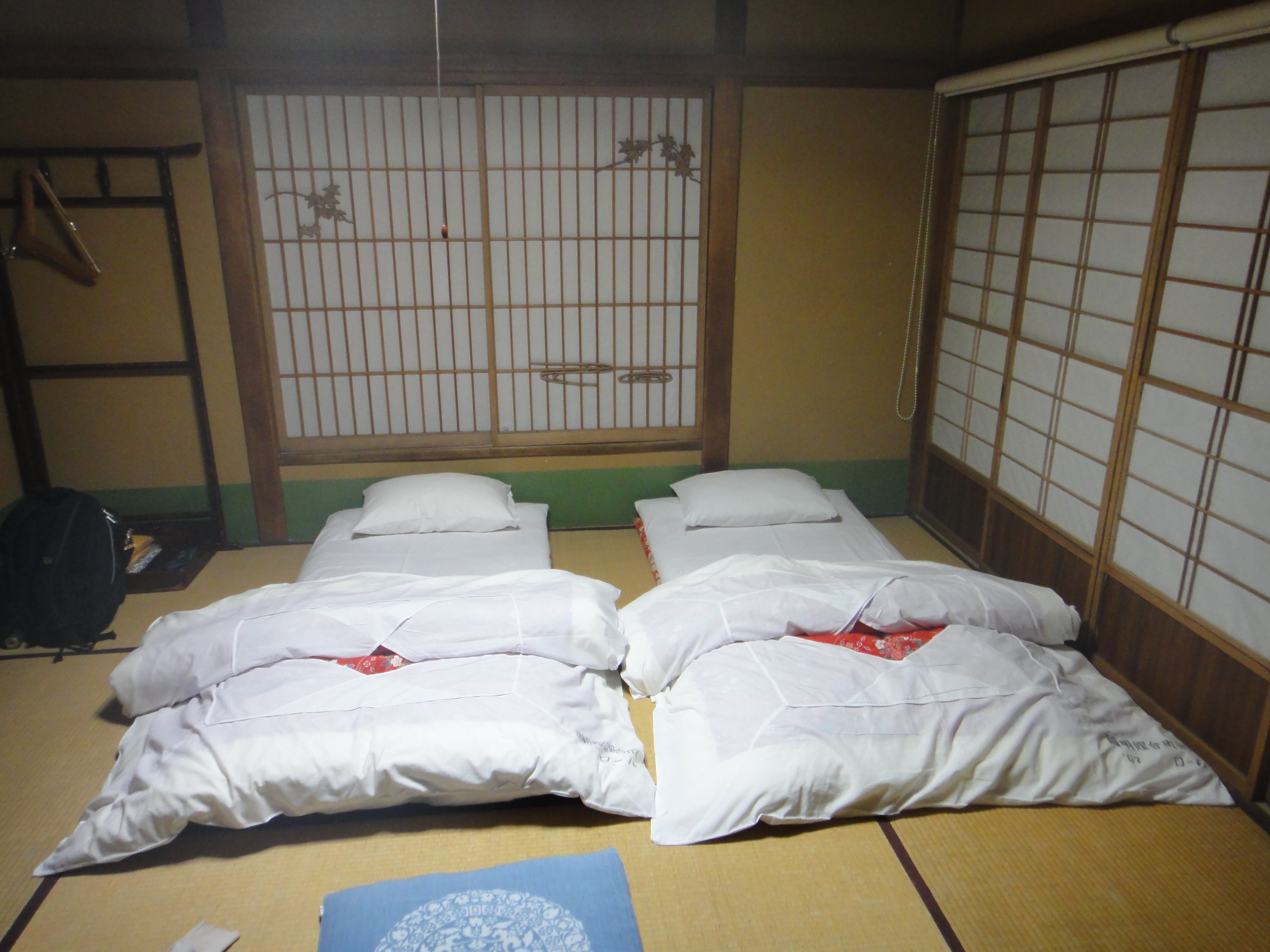 Where we are currently staying. Apparently it's pretty well known cause it's one of the few surviving traditional Japanese inns in Tokyo. Most are just run like a hotel but have Japanese style rooms. This is the whole deal.... meals in your room, shared bath (not what you think, this is like you get to use a giant super awesome shower room & jacuzzi thing all to yourself, you just reserve the time you want), bla bla. Pretty cheap too. You can definitely tell it's older, there's a bit of a musty smell every once in a while, but I kinda like it. According to the internet (ok...actually Frommer's) it's over 100 years old. So considering... it's in fantastic shape. Service is great and I'm looking forward to getting breakfast in my room tomorrow, hehe. ♪